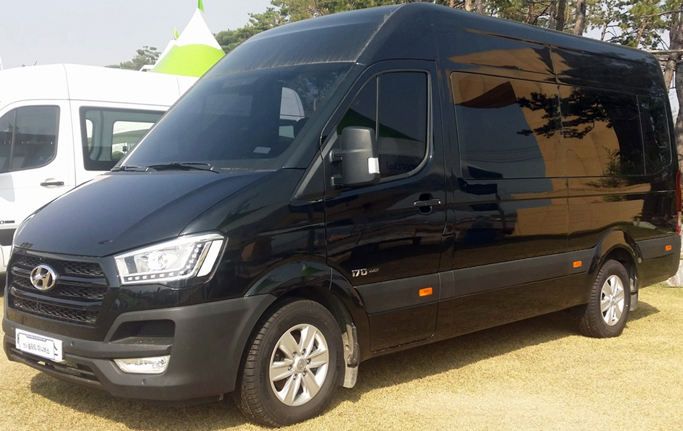 Hyundai Solati